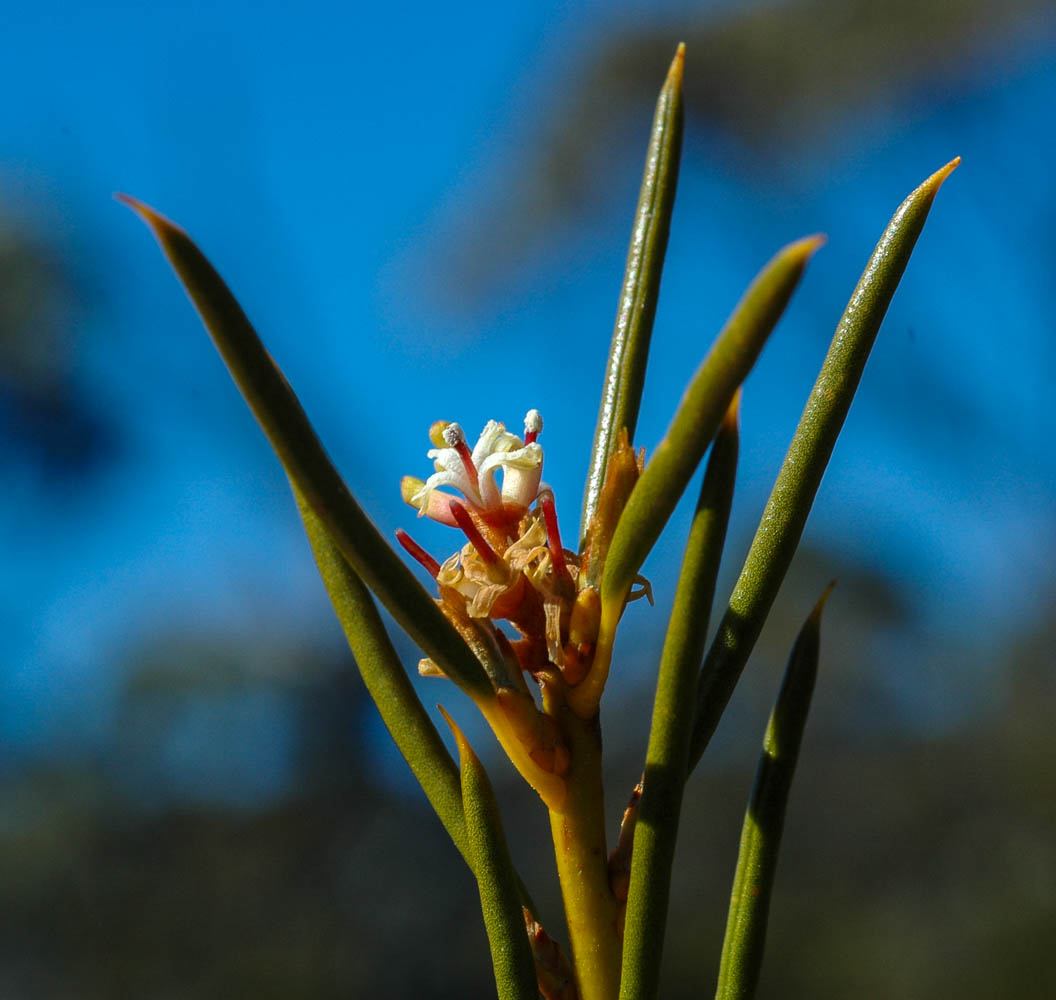 Orites acicularis in flower. Photos courtesy Rob Wiltshire